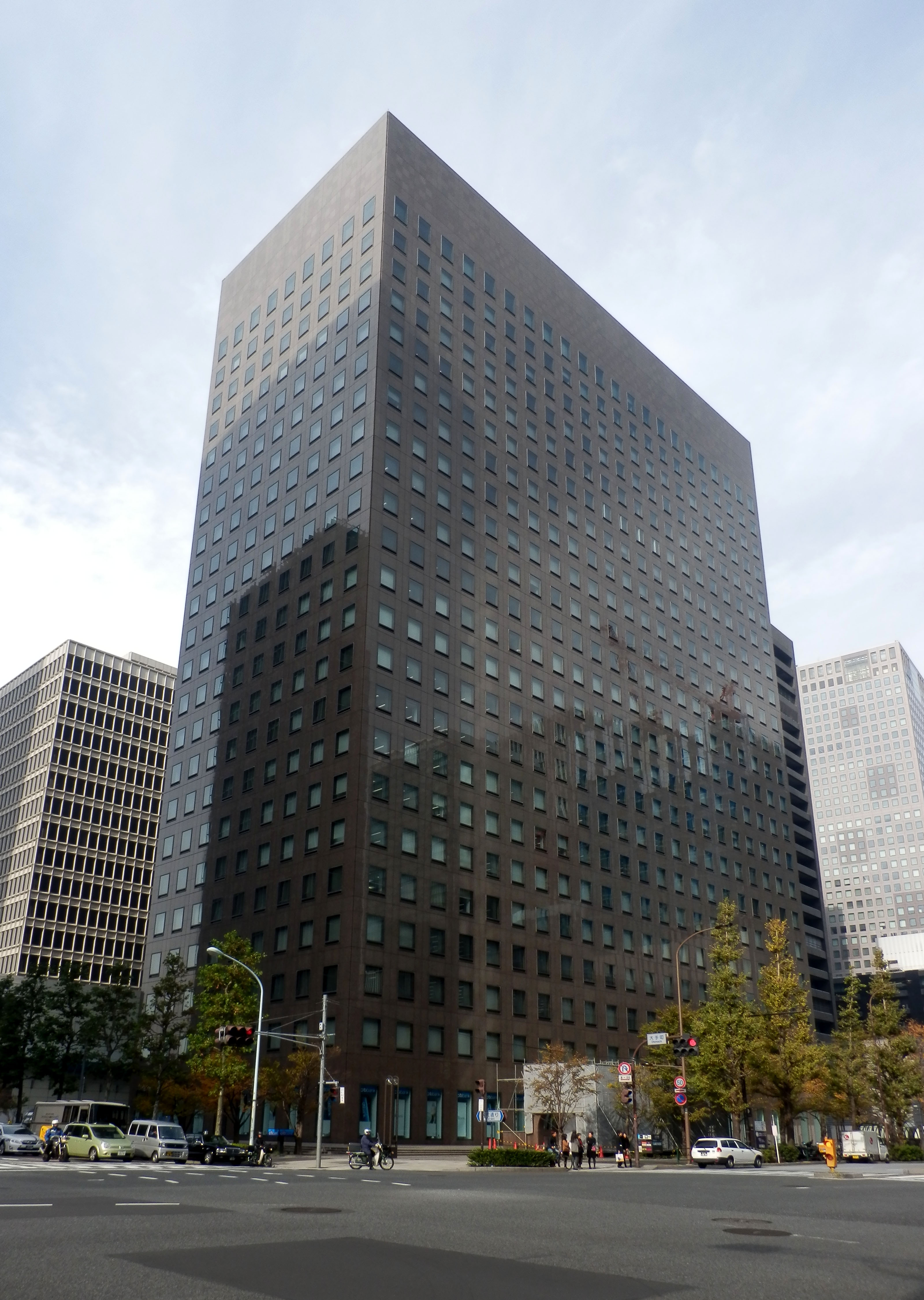 Ote Center Building (Office building in Tokyo, Japan)